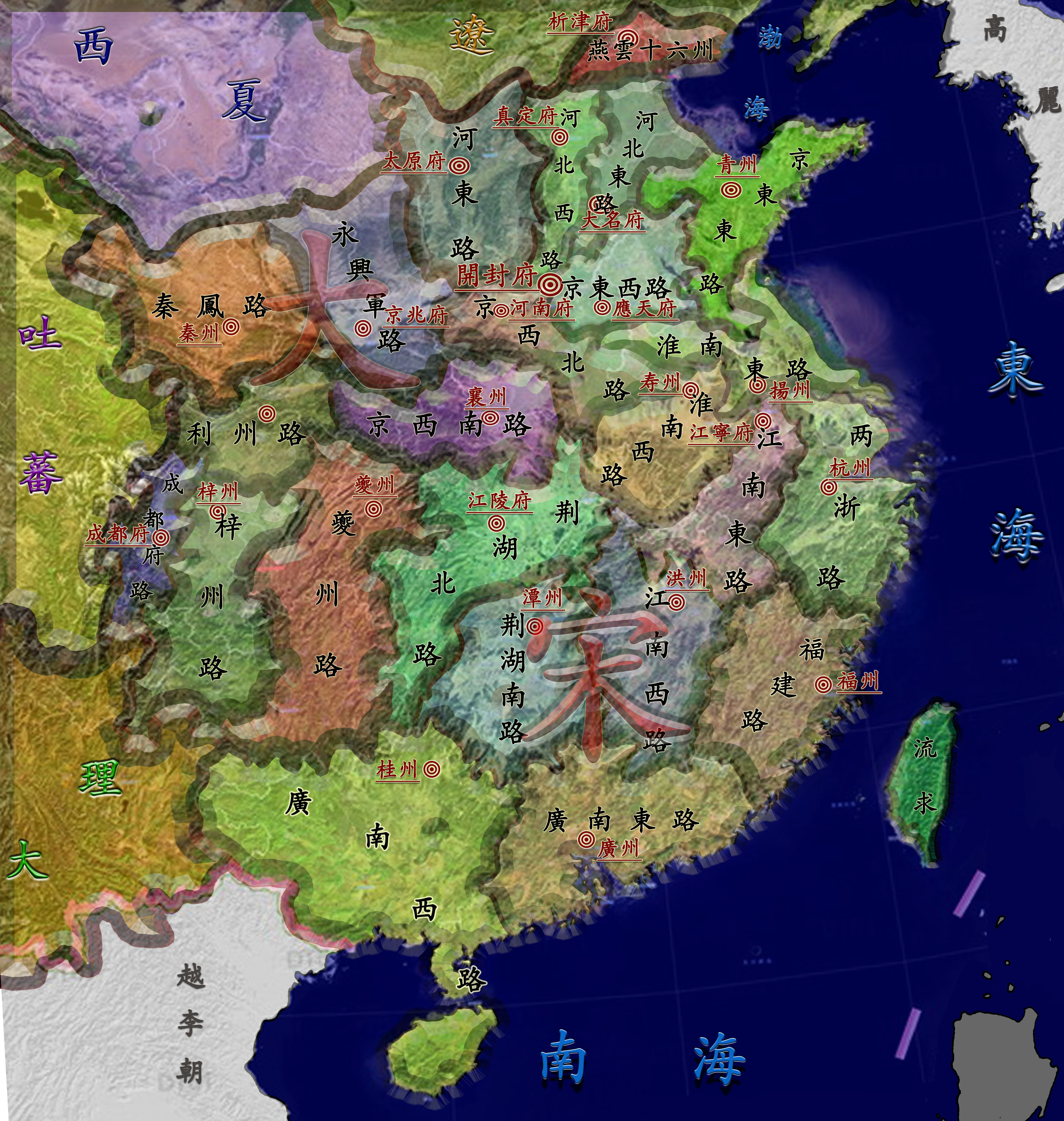 Northern Song